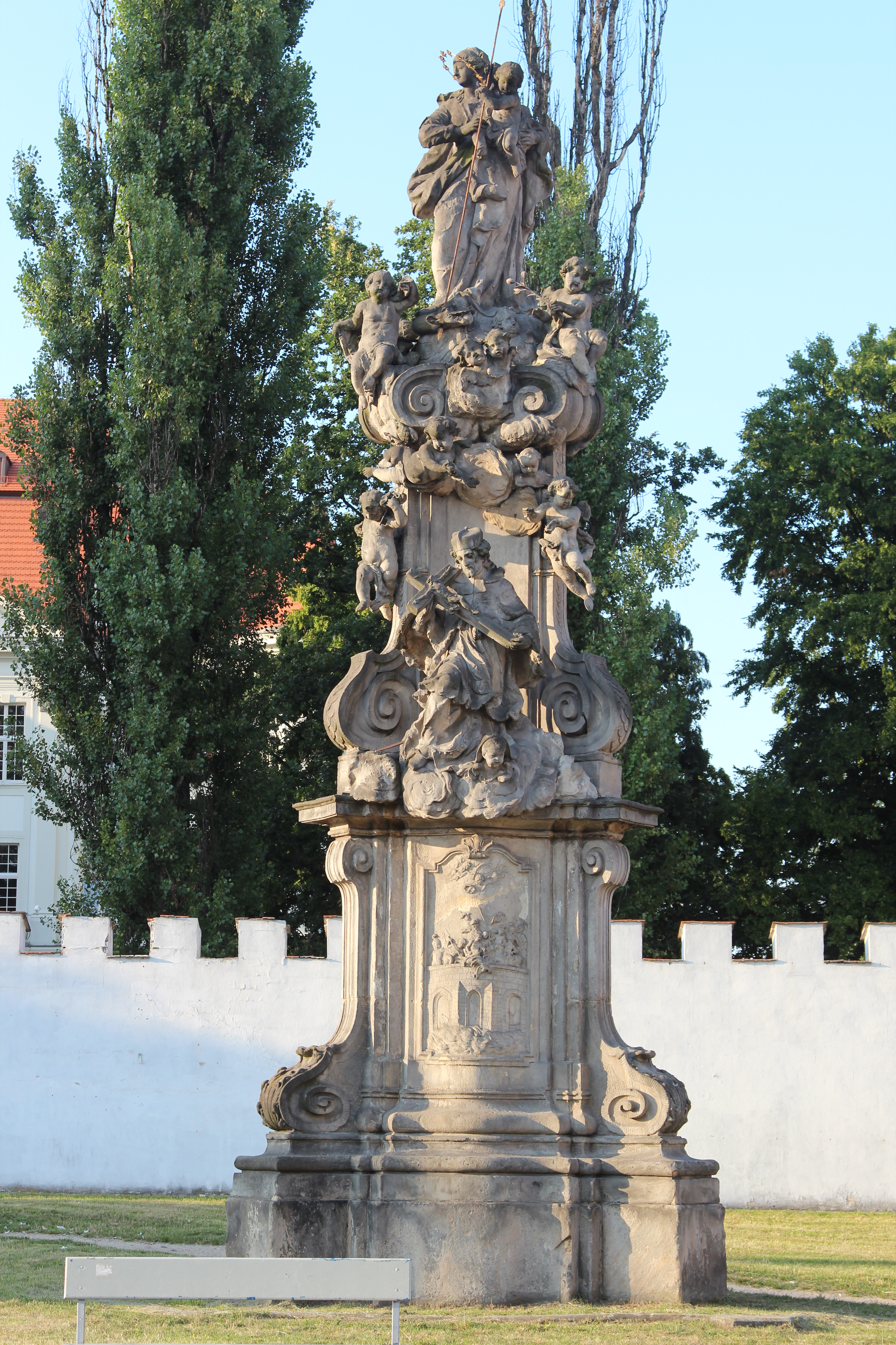 Statue of Mary with Child and St. John of Nepomuk in front of Lesnica Castle.